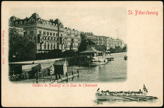 View of the Admiralty Enbankment, 4 in 1900-1917 years